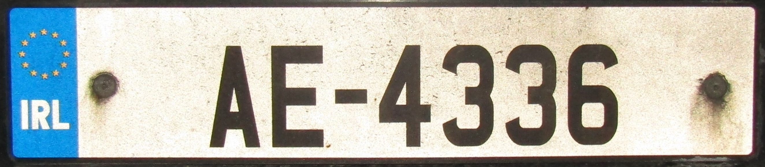 Ireland (trailer) license plate